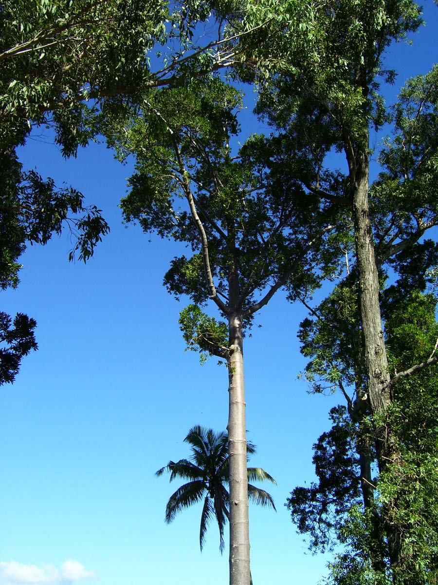 Agathis macrophylla, kauri, showing typical scars; on Tongatapu